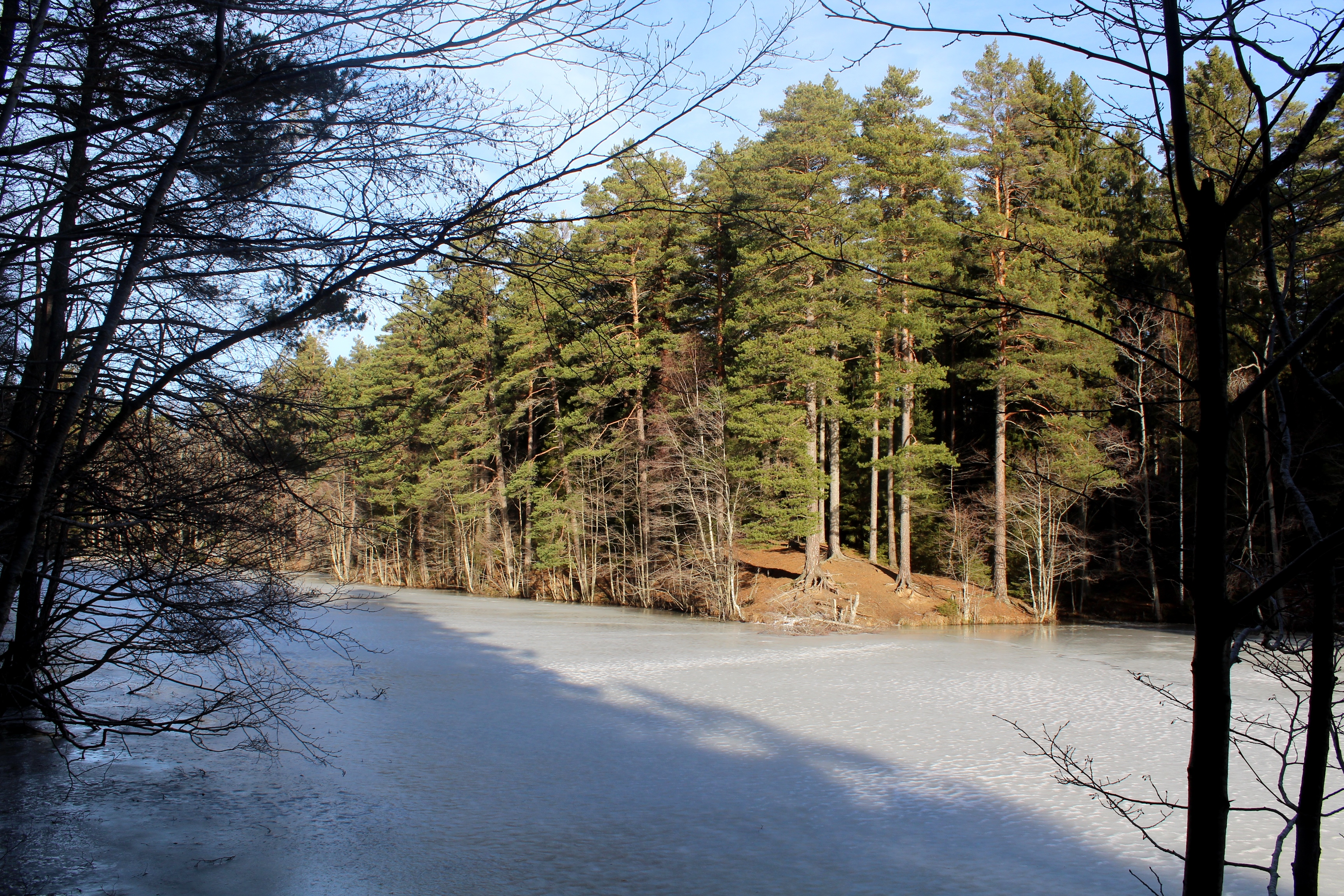 Stora dammen, lake i Botkyrka Municipality, Sweden